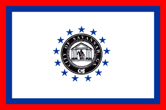 Flag of Savannah, Georgia, adopted on January 18, 1905. It consists of a white field, displaying in the center the Savannah City Coat of Arms, which was adopted in 1794, encircled by thirteen blue stars. The outer border is red; the inner border is blue.